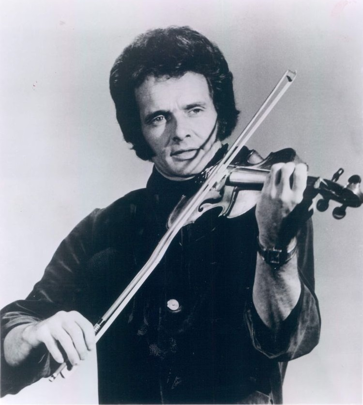 Publicity portrait of country music singer Merle Haggard for Capitol Records